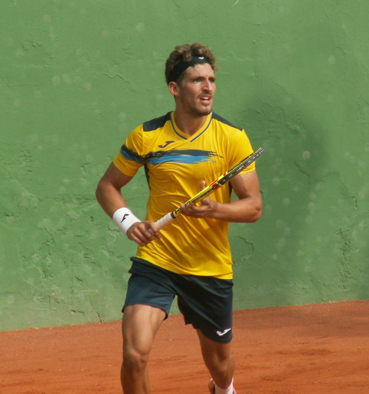 Mario vilella en medio d eun partido de tenis en España